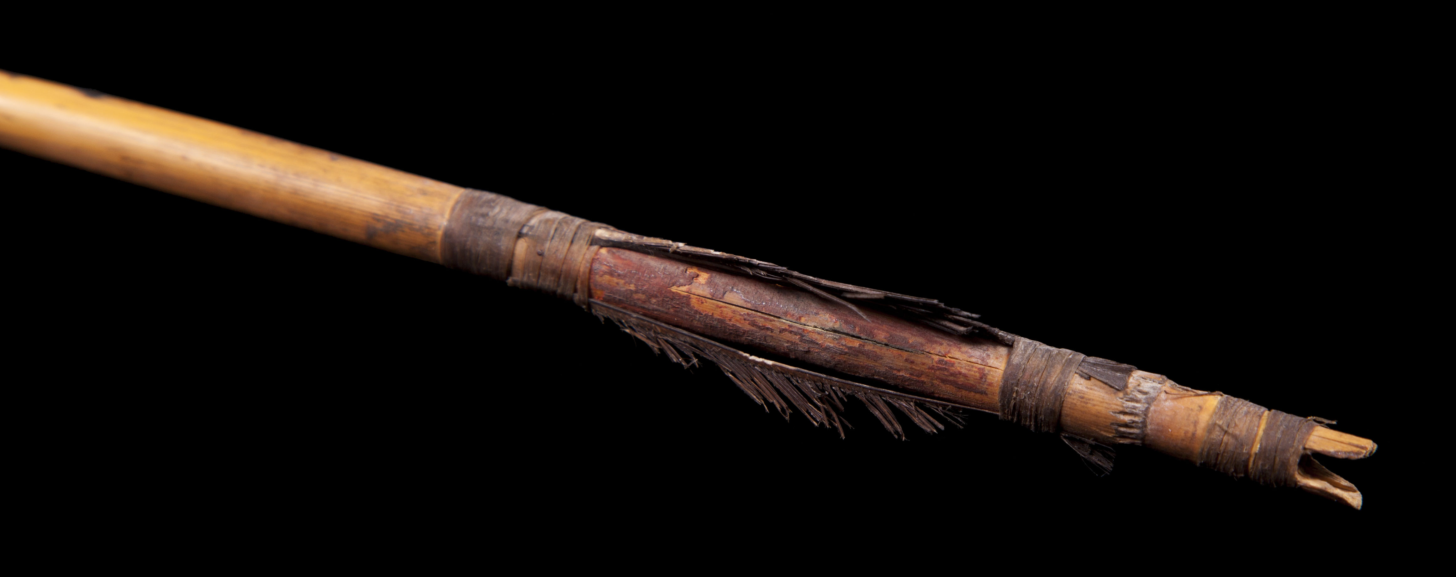 Close view of the sinew wrapped split feathers on MOCA 457, an arrow mainshaft. Collection: On display at the Montezuma Castle National Monument Visitor Center (Catalog No. MOCA 457).